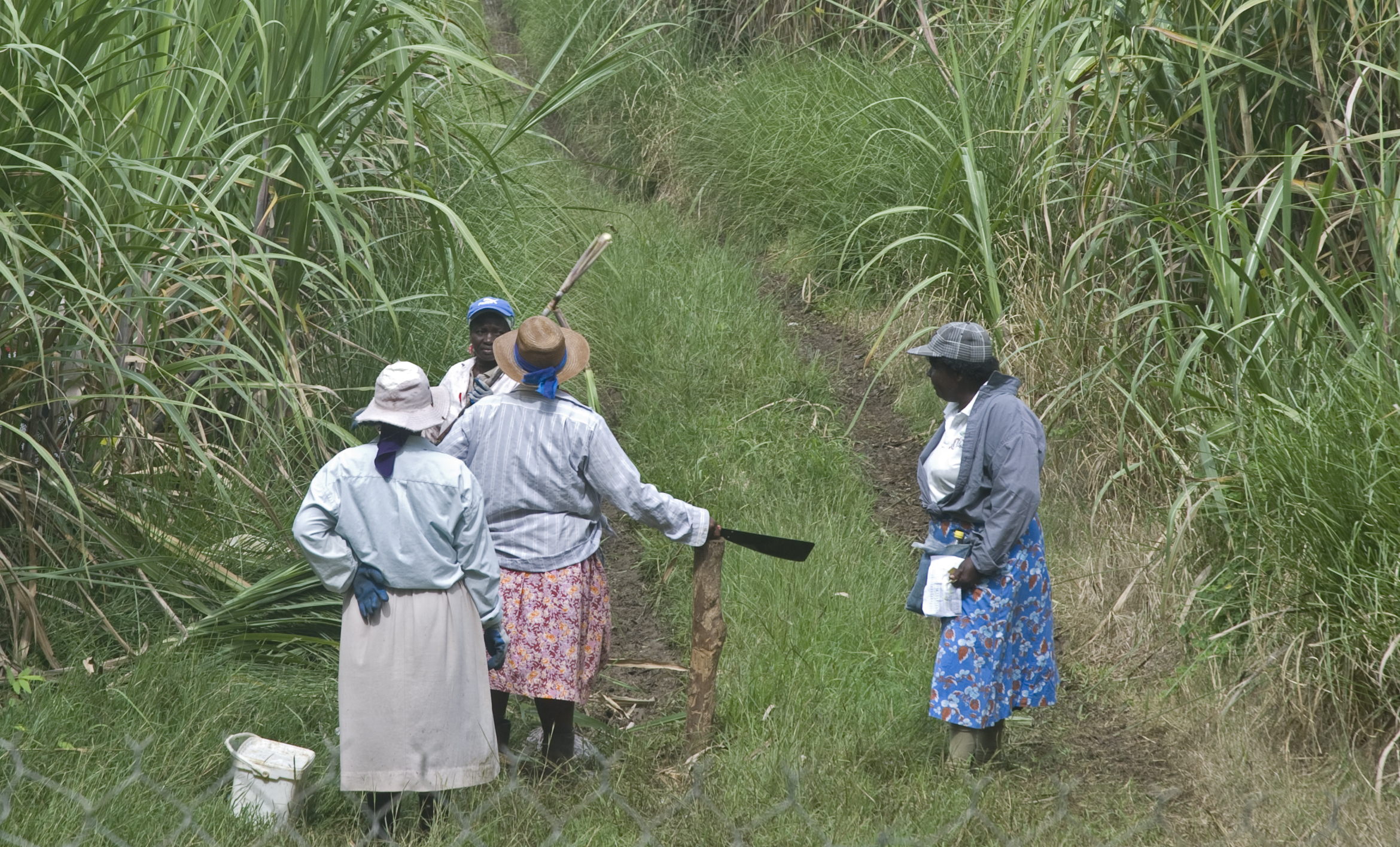 Female workers at the sugar plantage,Barbados